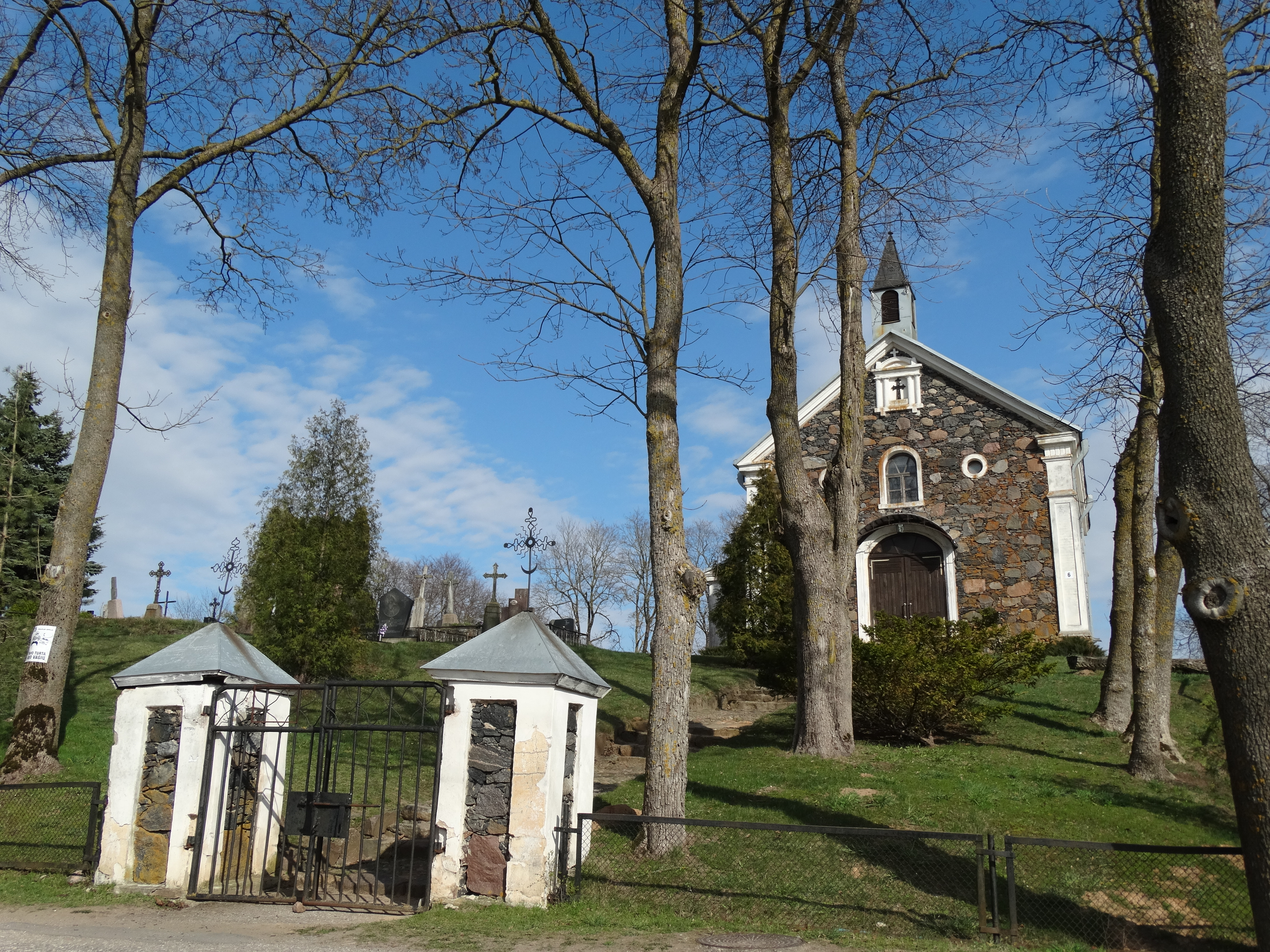 Chapel, Barklainiai, Panevėžys District, Lithuania